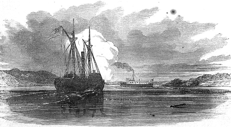 CSS Teaser (pictured right) being captured by USS Maratanza, from the U.S. Naval Historical Center.